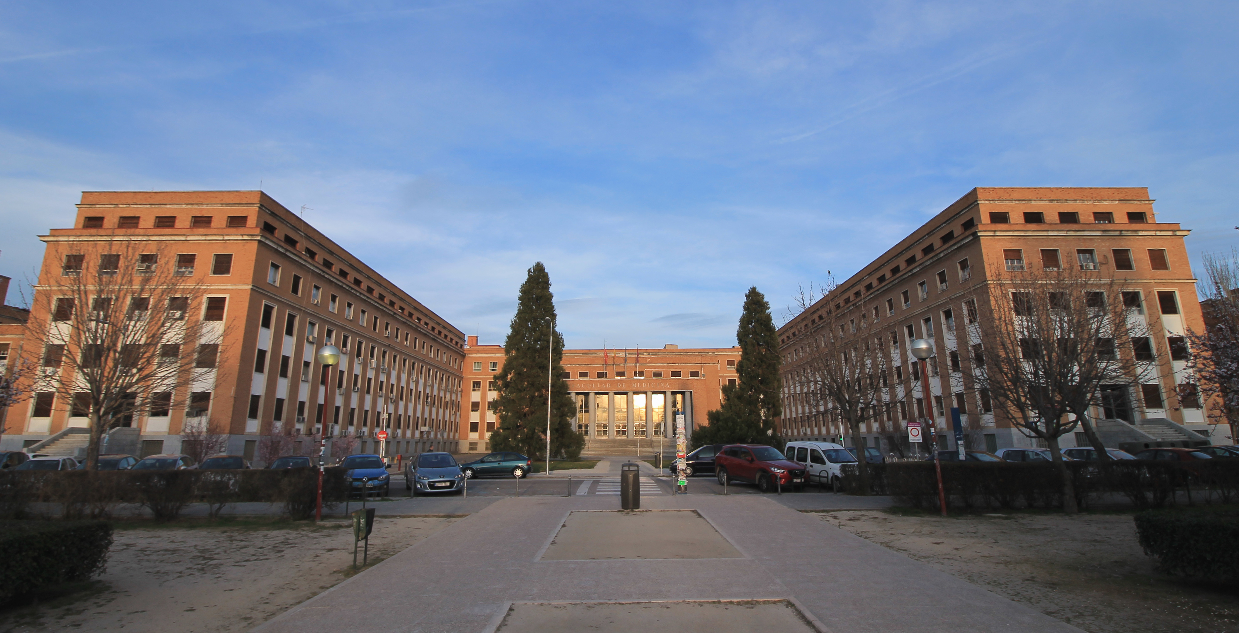 Home of the Faculty of Medicine of the Complutense University of Madrid (Spain).